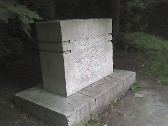 McTavish Monument in Mount Royal Park, Montreal: "McTAVISH MONUMENT SACRED TO THE MEMORY OF SIMON McTAVISH ESQUIRE WHO DIED JULY 6TH 1804 AGED 54 YEARS. THIS MONUMENT IS ERECTED BY HIS NEPHEWS WILLIAM AND DUNCAN TO COMMEMORATE THEIR HIGH SENSE OF HIS MANLY VIRTUE AND AS A GRATEFUL TRIBUTE FOR HIS MANY ACTS OF KINDNESS TO THEM. Restored by the City of Montreal 1942."